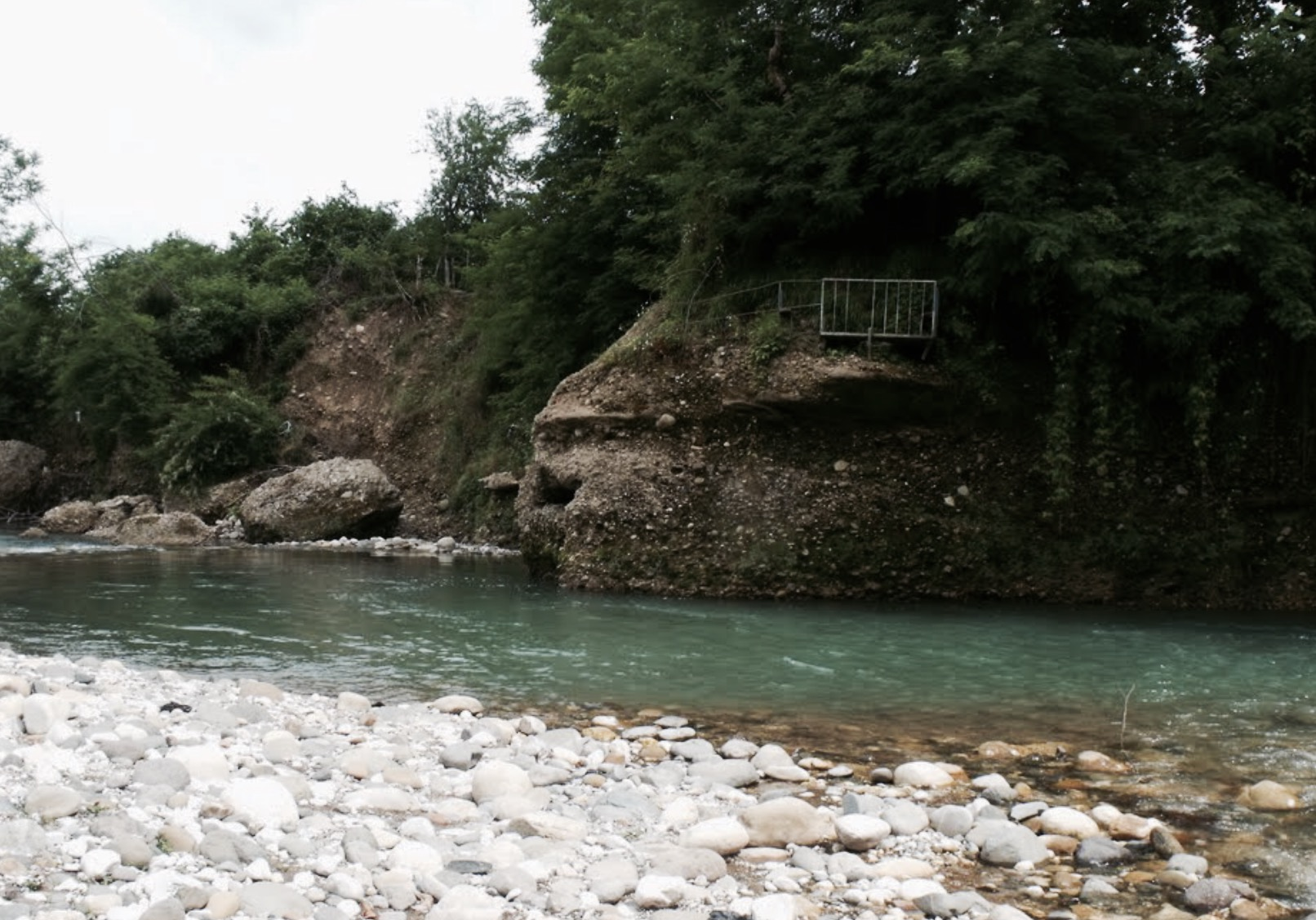 Chanistskali river in Mingrelia.